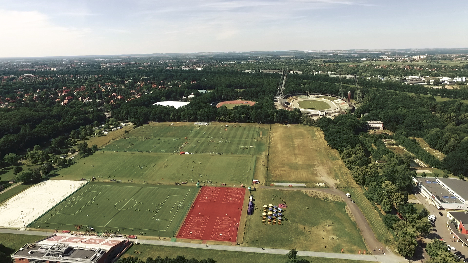 Aerial view on Wrocław Trophy